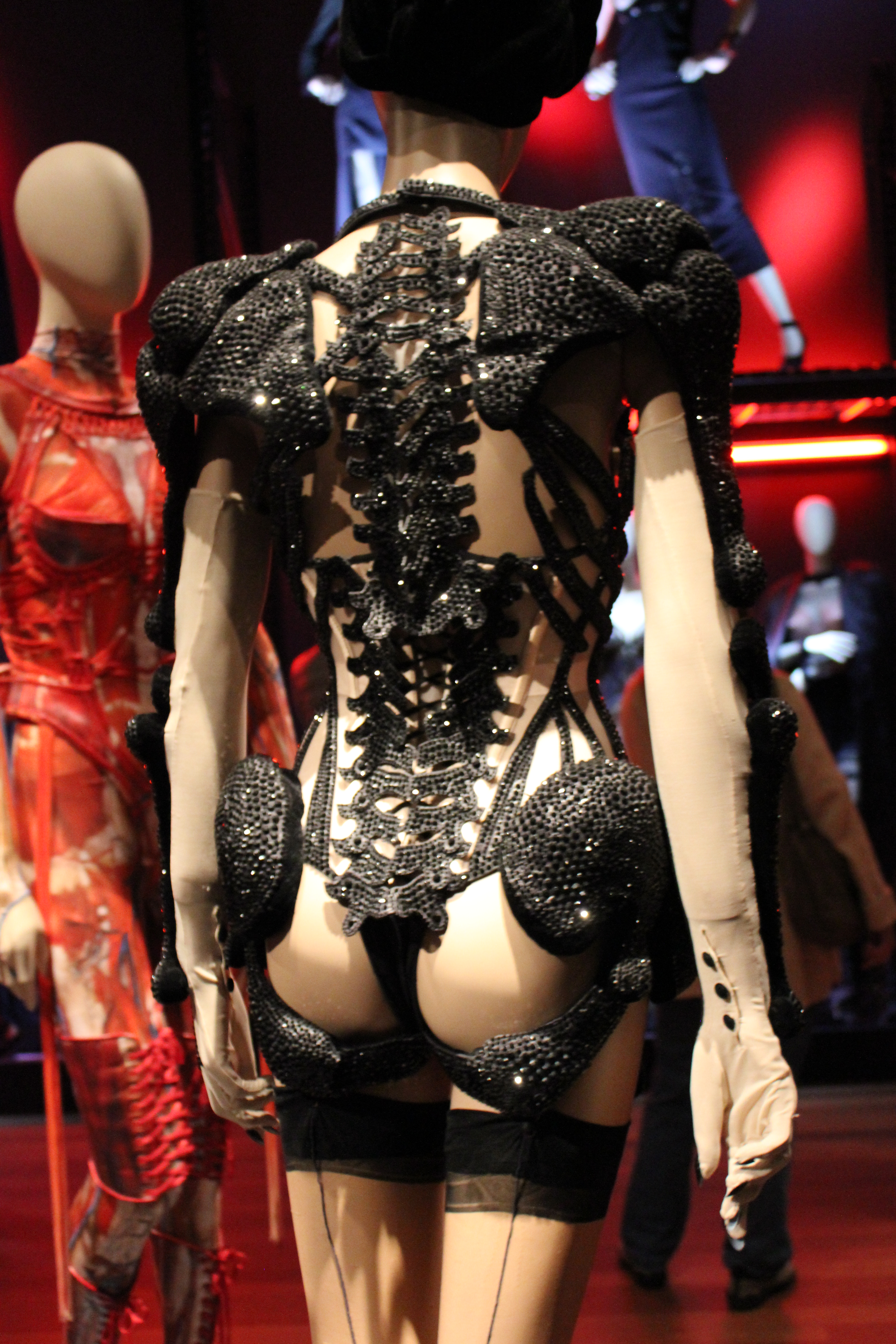 Jean Paul Gaultier fashion, torsolette, or "merry widow" undergarments